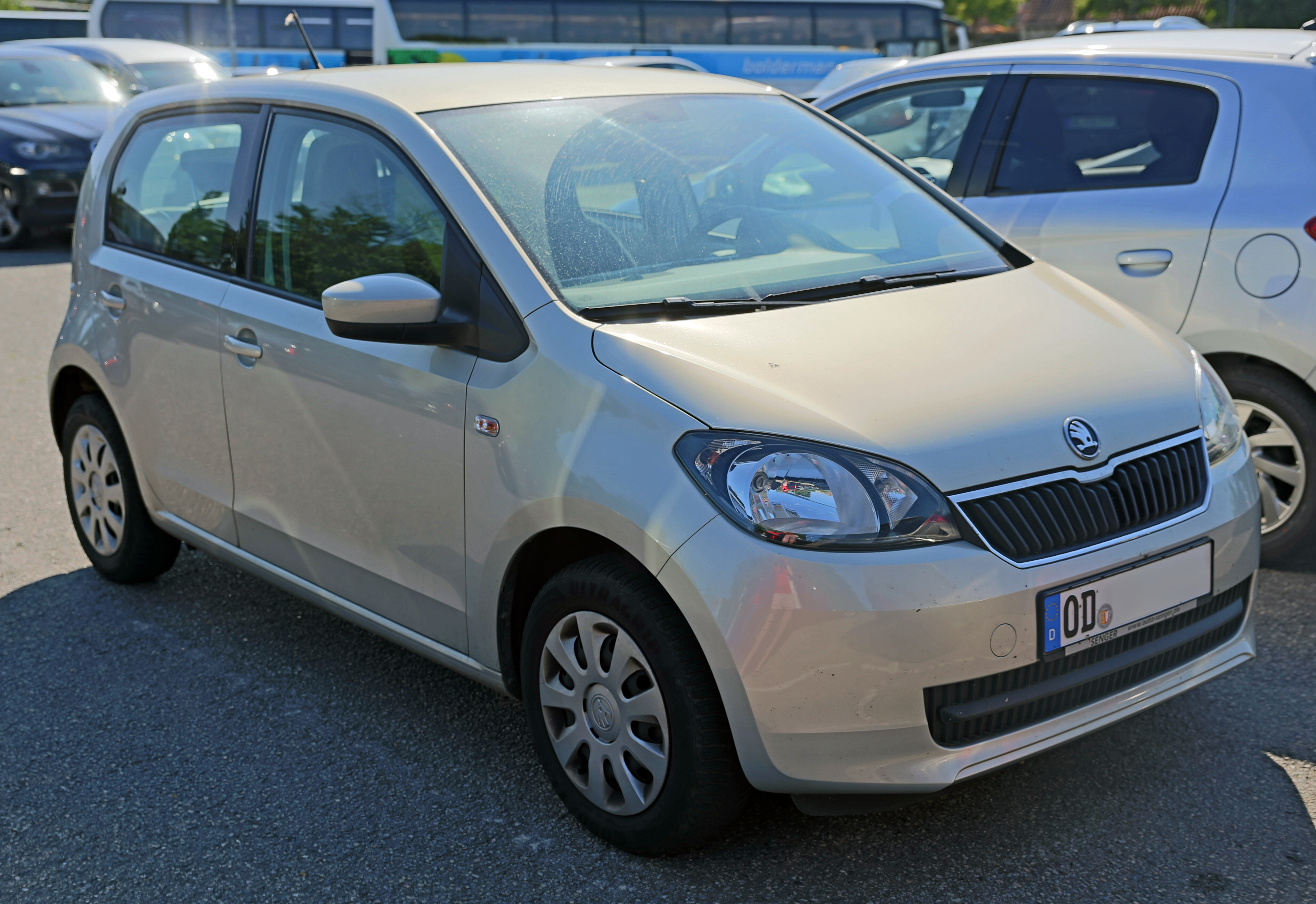 A 2014 Škoda Citigo (five-door) in Lübeck.